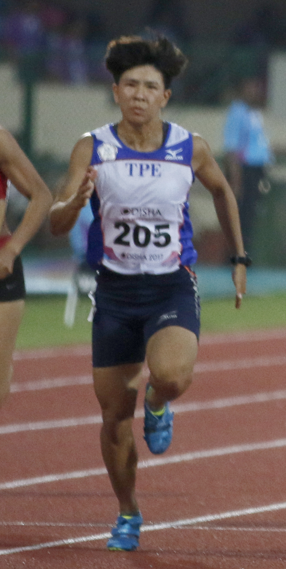 Semi final, women's 100 m, 22nd Asian Athletics Championships in Bhubaneswar.